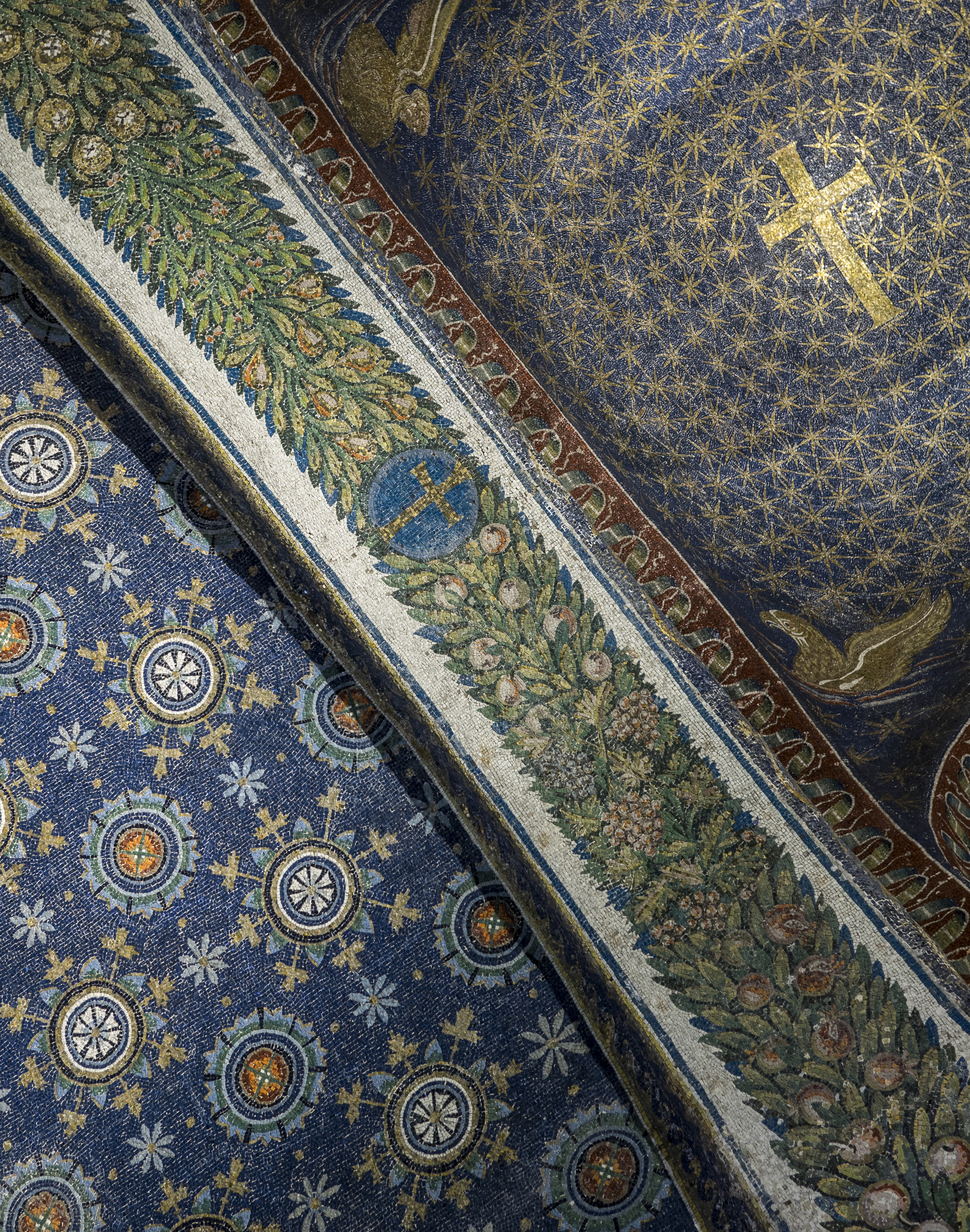 Ceiling mosaics in mausoleum of Galla Placidia. UNESCO World heritage site. Ravenna, Italy. 5th century A.D.